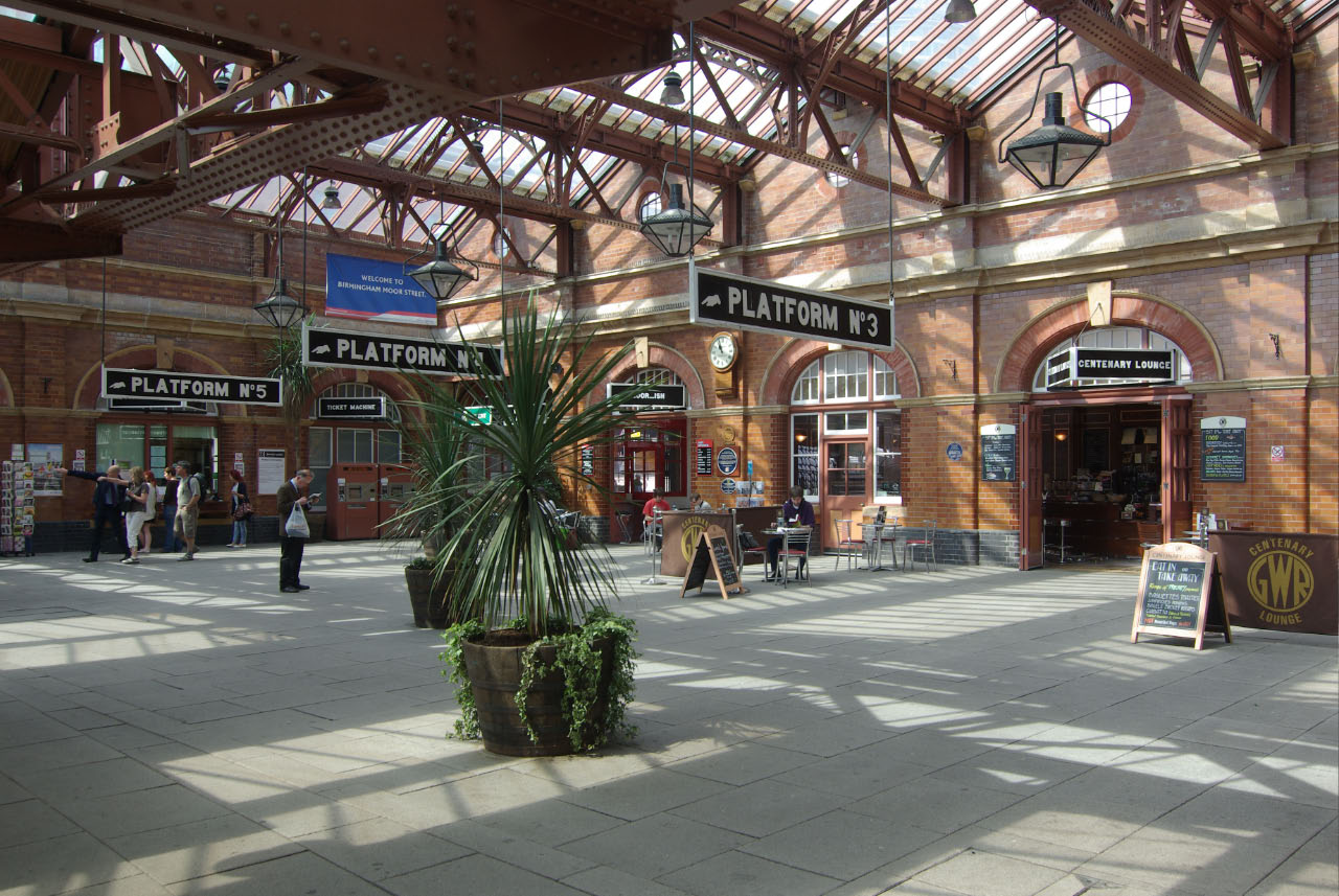 Moor Street Station, near to Birmingham, Great Britain. Relatively quiet on a Sunday morning, the concourse at Moor Street has been beautifully restored in keeping with its Great Western Railway origins - a dramatic contrast from the much larger New Street station, with its uncompromising 1960s architecture, a short walk away.